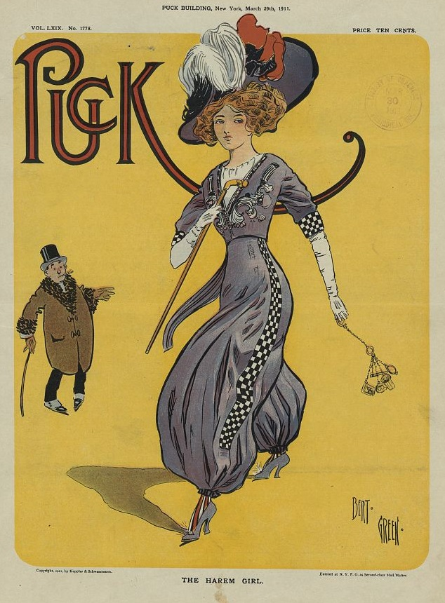 A woman wearing the new 'harem pants'/'harem skirt' style of 1911 as popularised by Paul Poiret, and caricatured by Bert Green for Puck Magazine, 29 March 1911